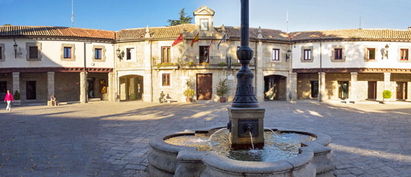 Plaza Mayor y Ayuntamiento de Guadarrama